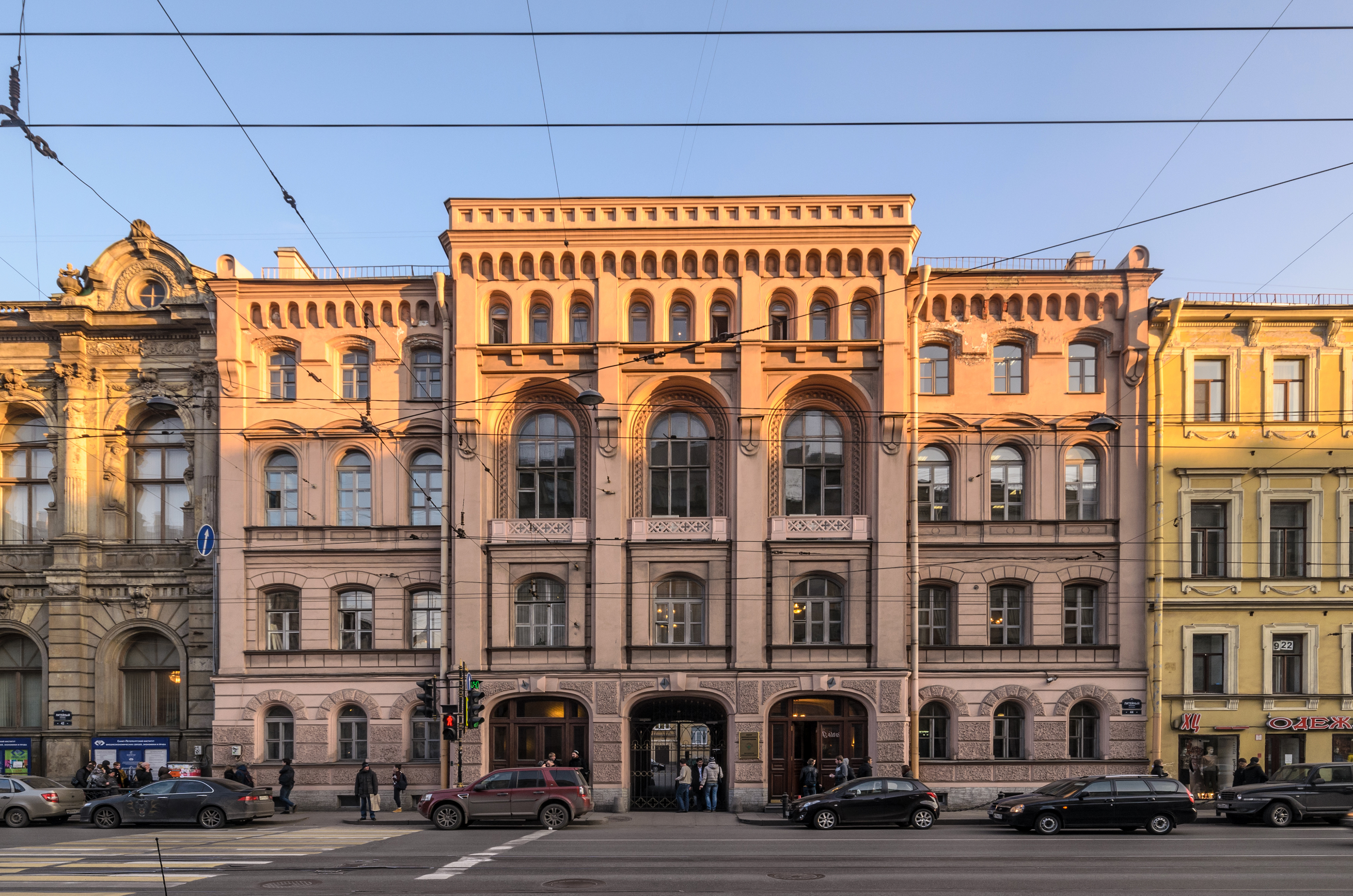 44, Liteyny Avenue in Saint Petersburg